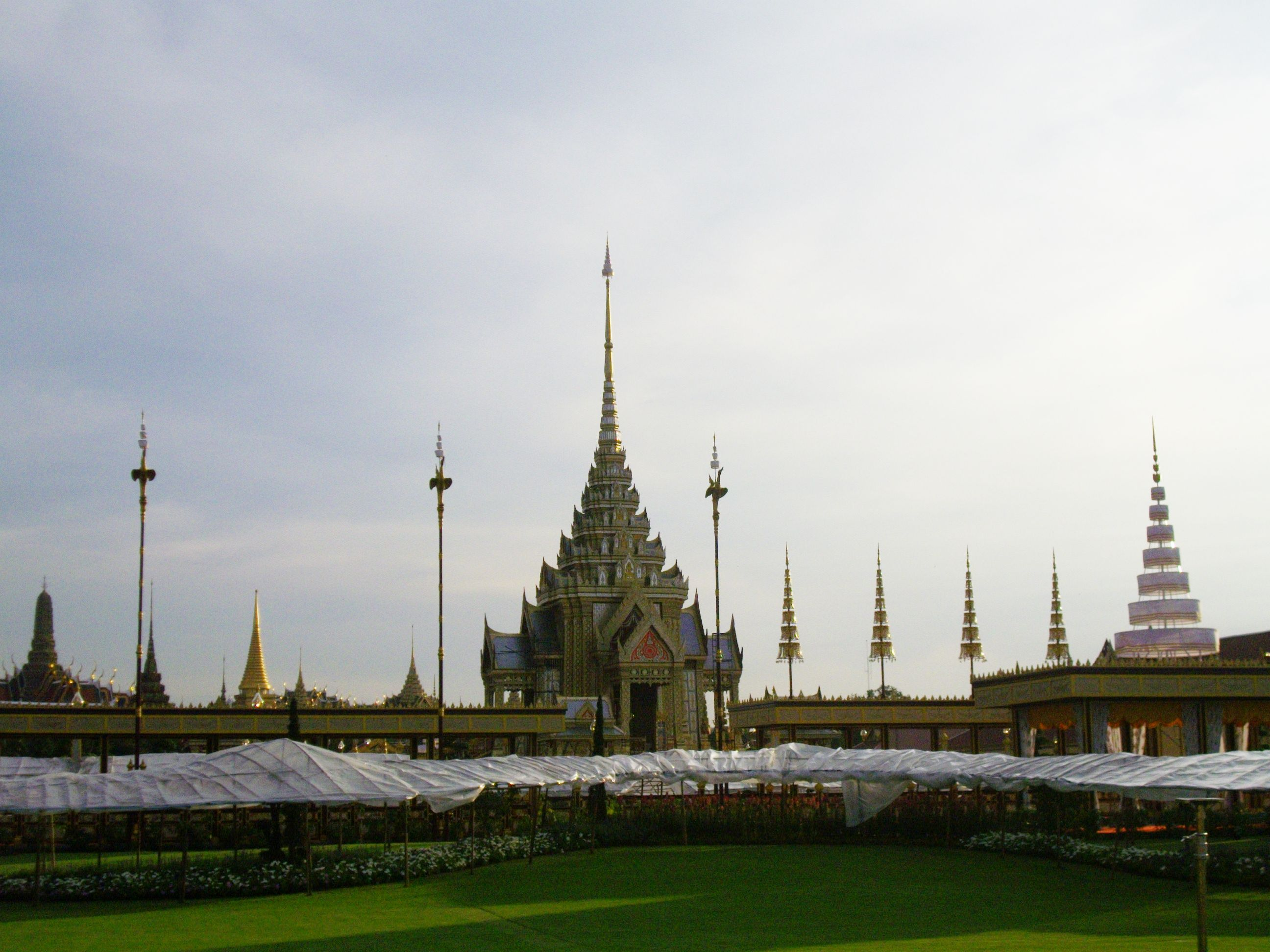 The Royal Crematorium ("Phra Meru") at Sanam Luang, view from north side. This building was used in the Royal Cremation of Her Royal Highness Princess Galyani Vadhana, King Rama IX's Sister, on 15 November 2008.